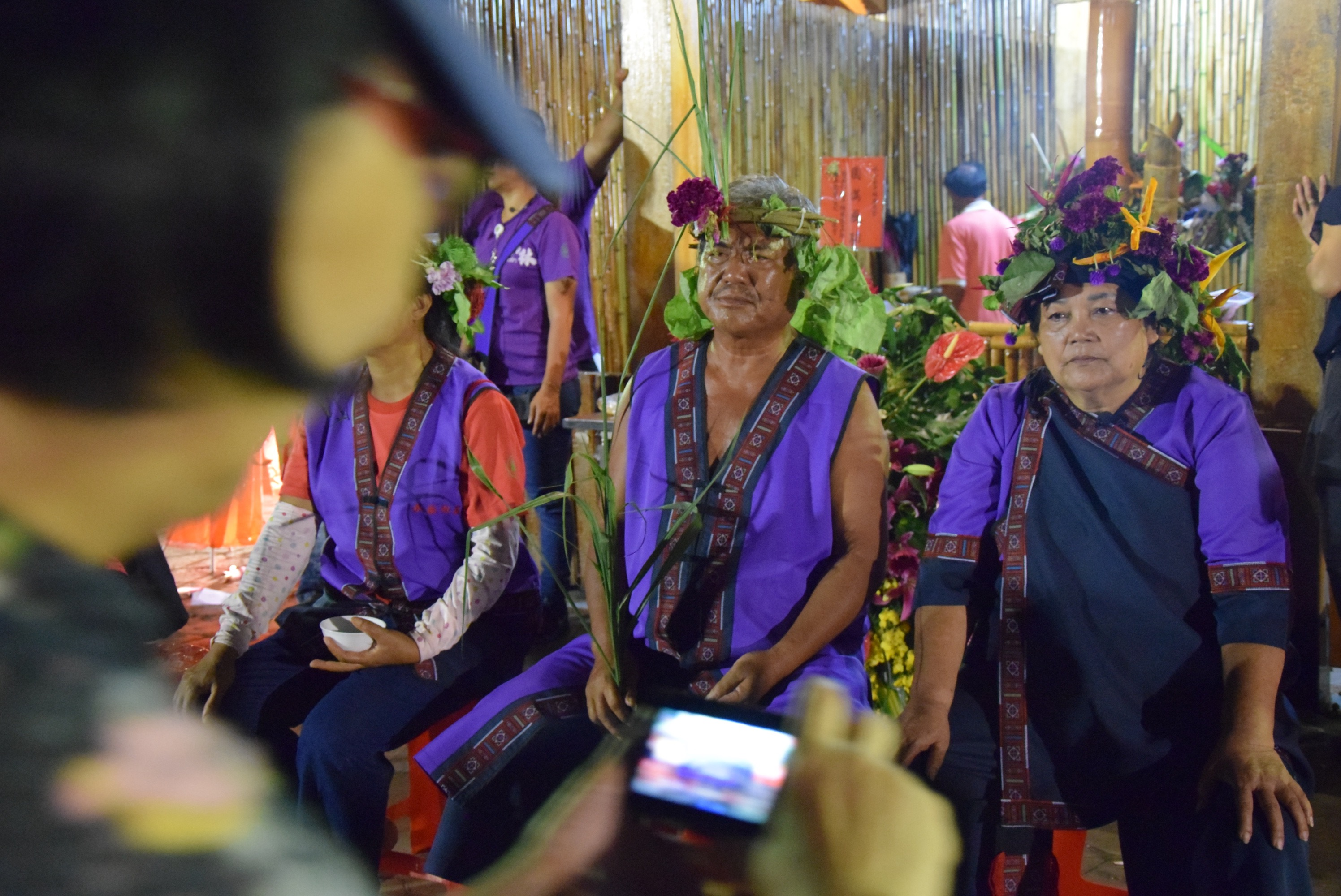 Taivoan priests on the Night Ceremony in Siaolin.